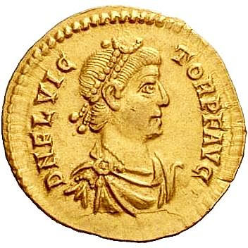 Flavius Victor, 387-388, Solidus, Treveri 387, AV 4.48 g. DN FL VIC – TOR P F AVG Pearl-diademed, draped and cuirassed bust r. Kent-Hirmer pl. 181, 714. C 1. Depeyrot 52/3. RIC 75.